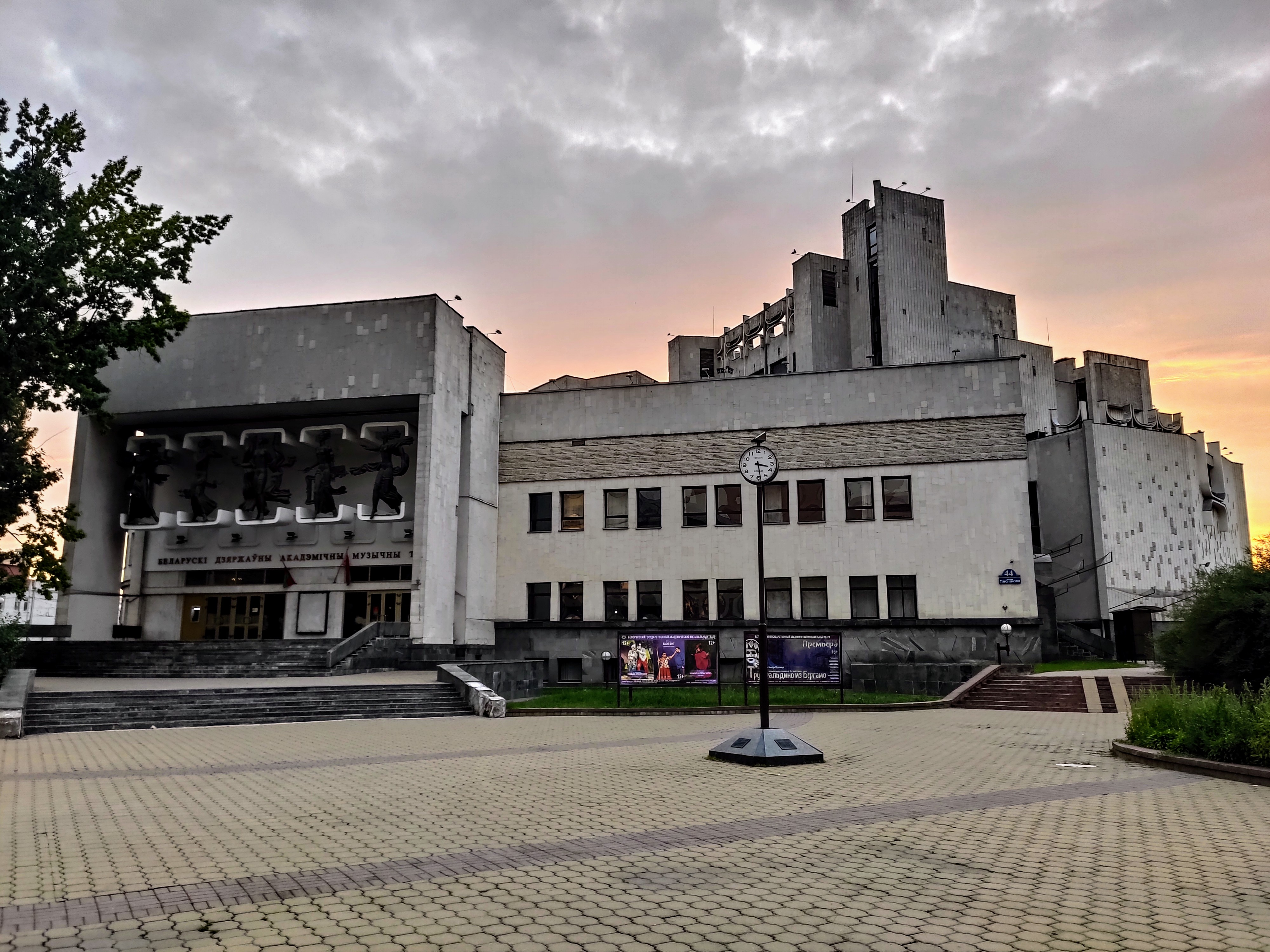 Musical theatre in Minsk